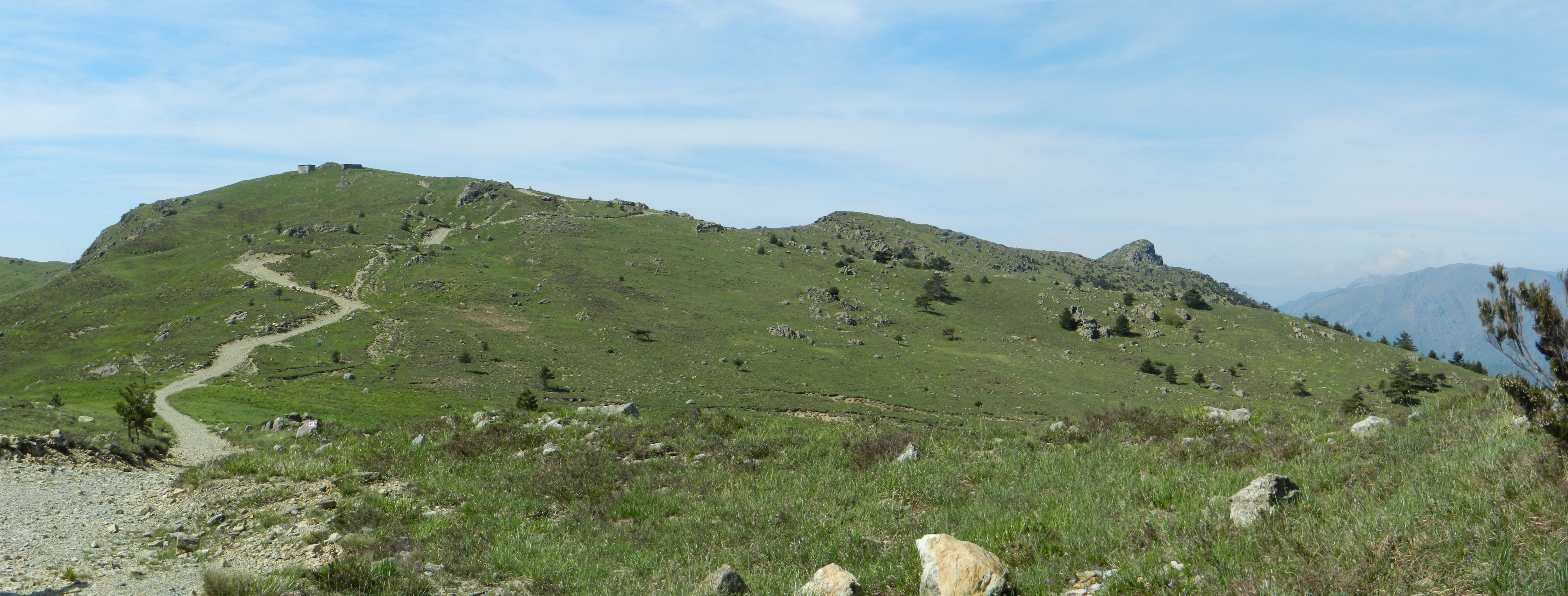 Mount Penello and Punta Martin (province of Genoa)